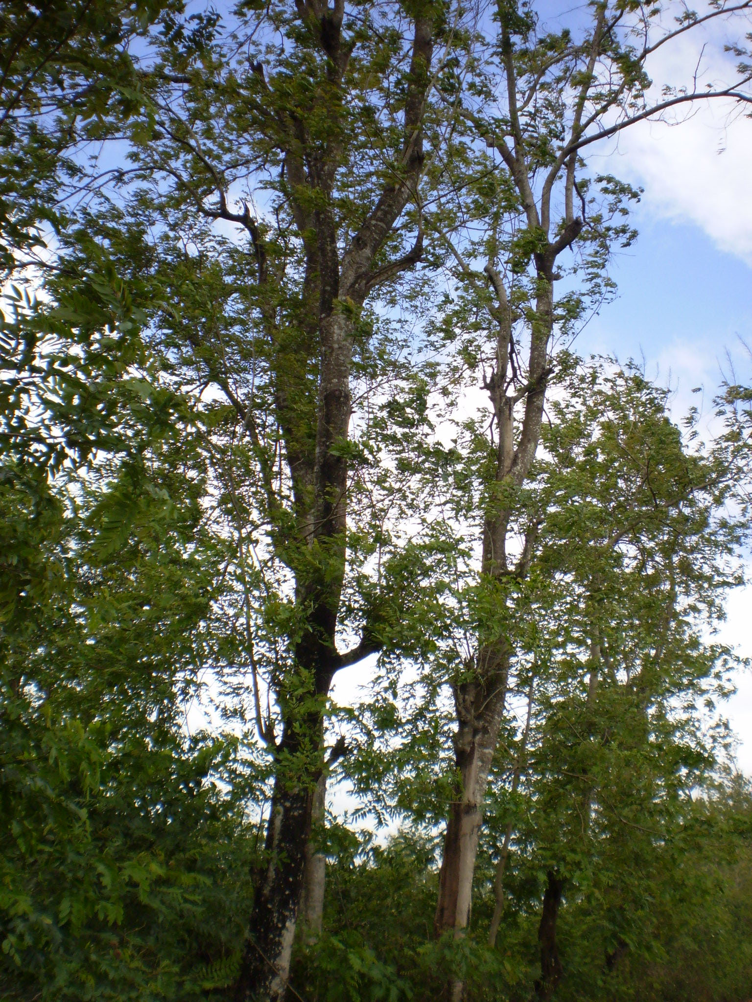 Senna siamea in Cư Kuin District, Đắk Lắk Province, Vietnam